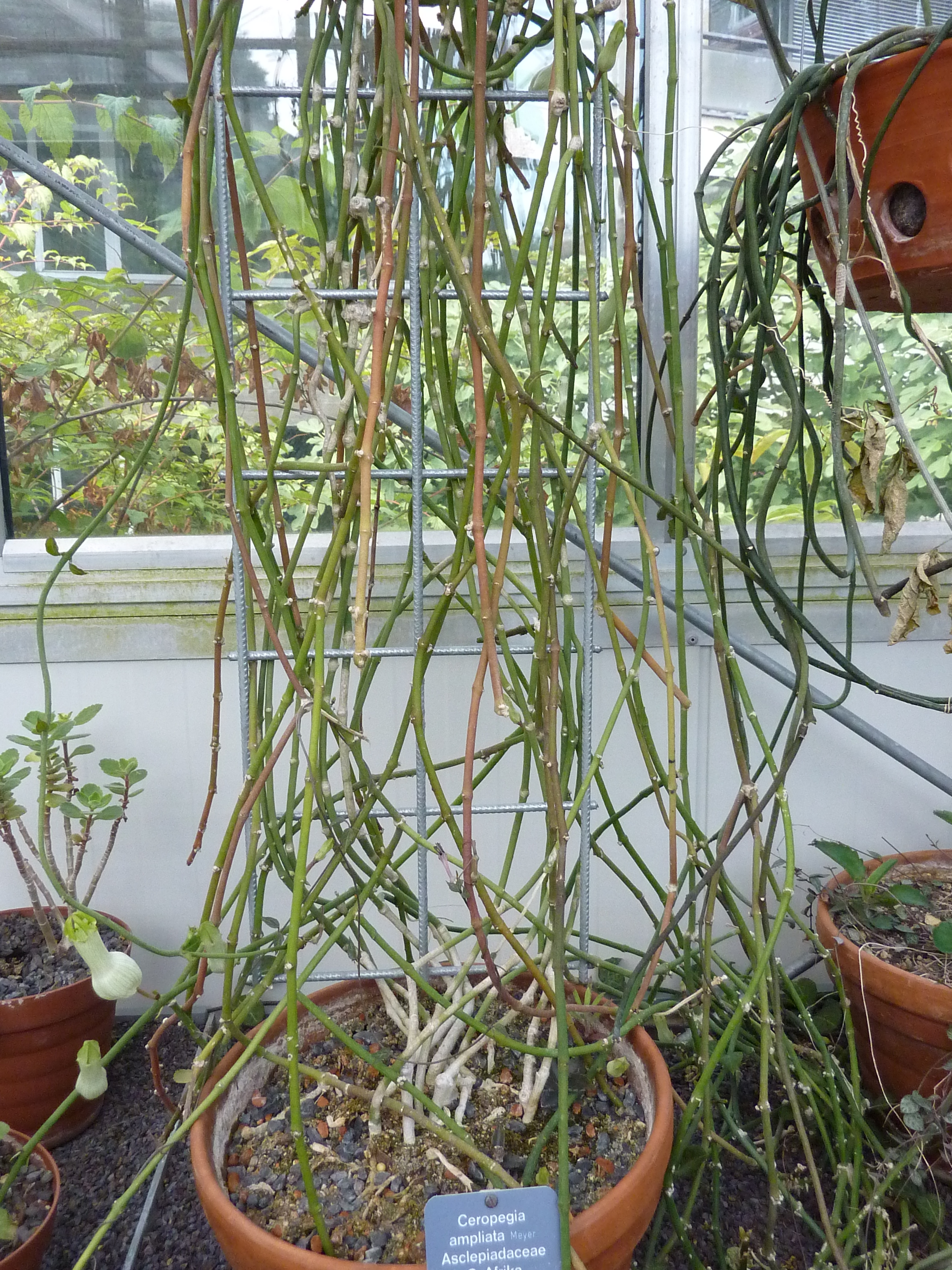 Ceropegia ampliata at the Botanical Garden of the University of Basel.